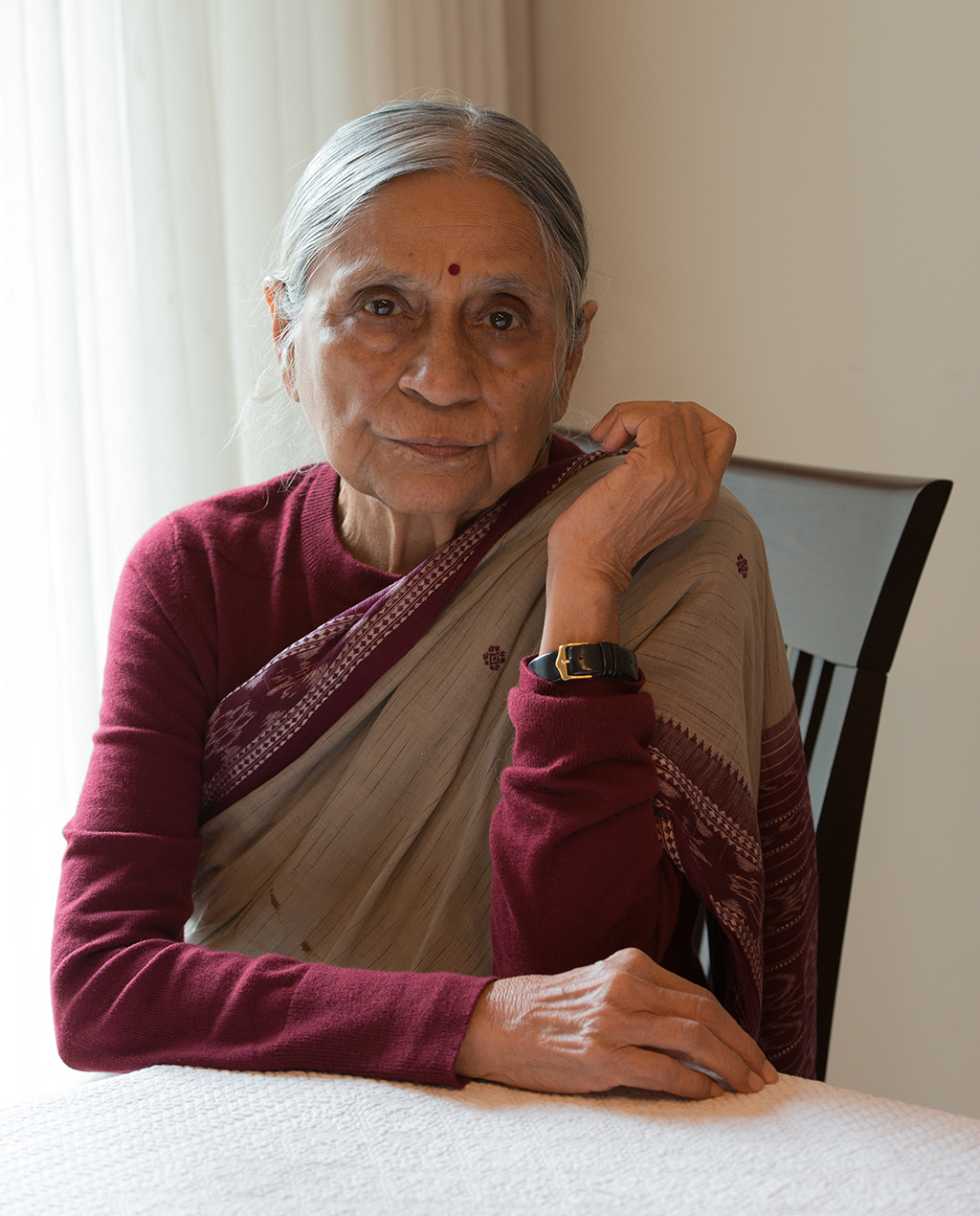 The Indian cooperative organiser and activist Ela Bhatt during a session at the McMaster University, Hamilton, Ontario in 2013.